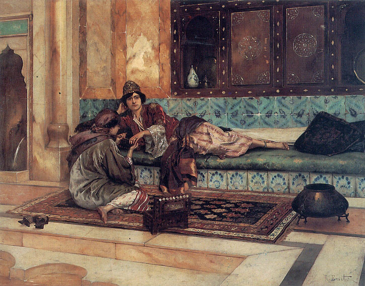 The Manicure